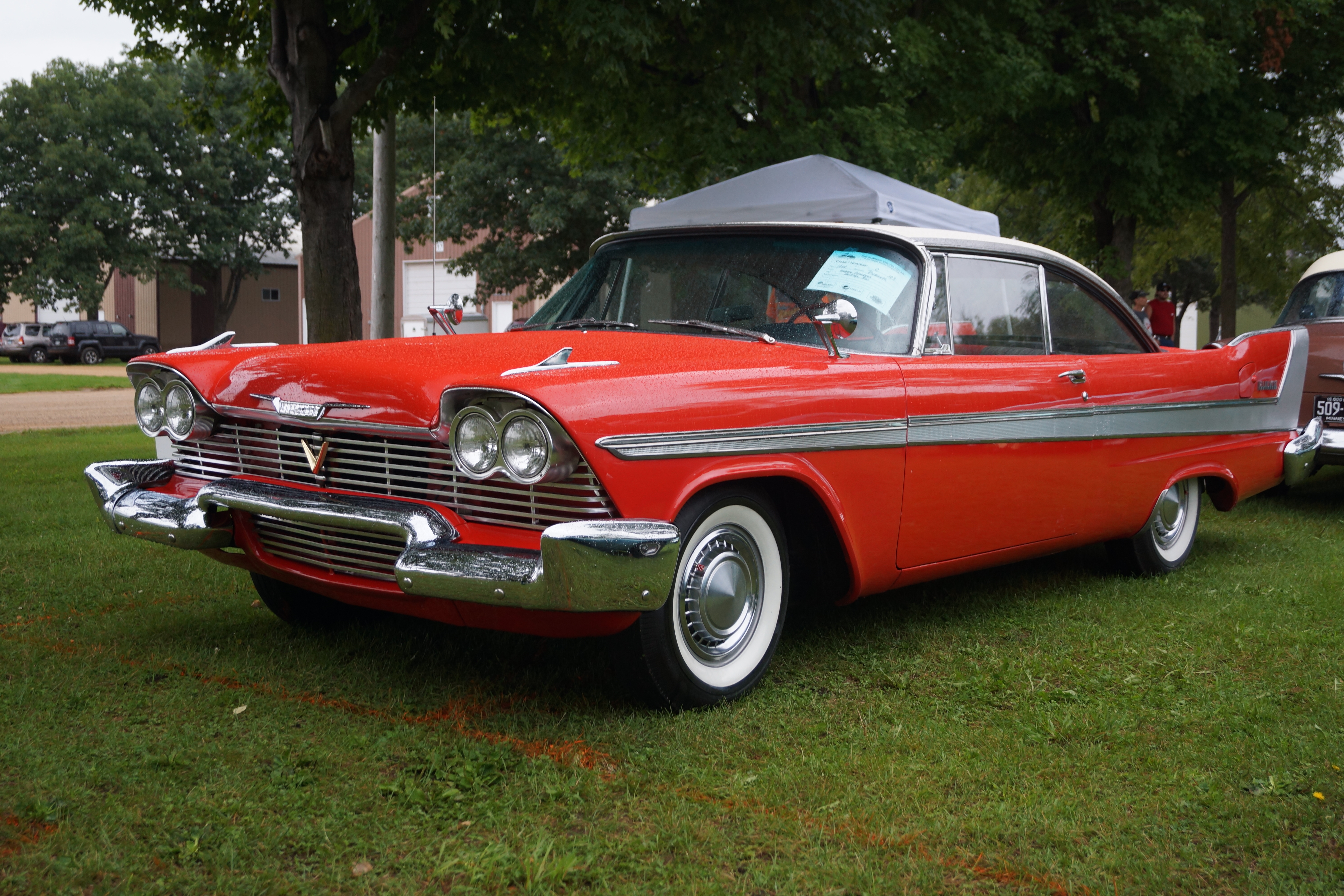 Southern Twin Cities Cruzers 28th Annual Summer Spectacular Car Show Dakota County Fairgrounds Farmington, Minnesota August 2016 Click here for more car pictures at my Flickr site.